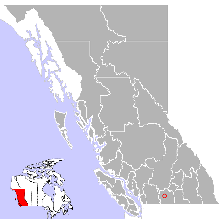 Princeton, British Columbia location.